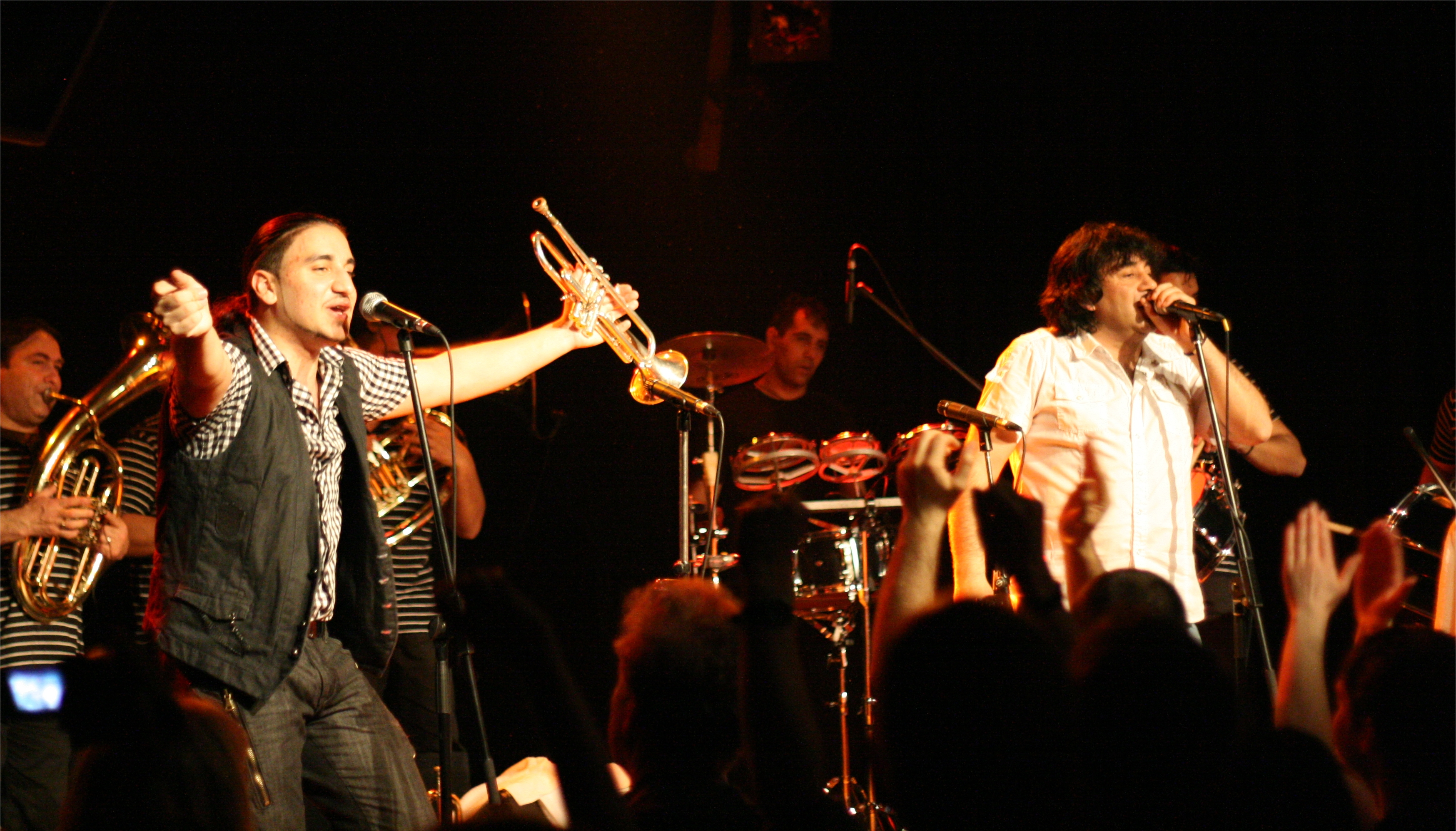 Marko and Boban Markovic, musicians from Serbia